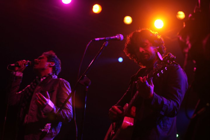 Picture of Strings during a concert at Lahore University of Management Sciences (LUMS) in Lahore, in 2011.